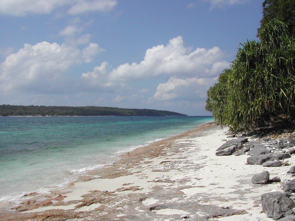 Valu Beach, Tutuala, Lautem, Timor-Leste with Jaco Island to left